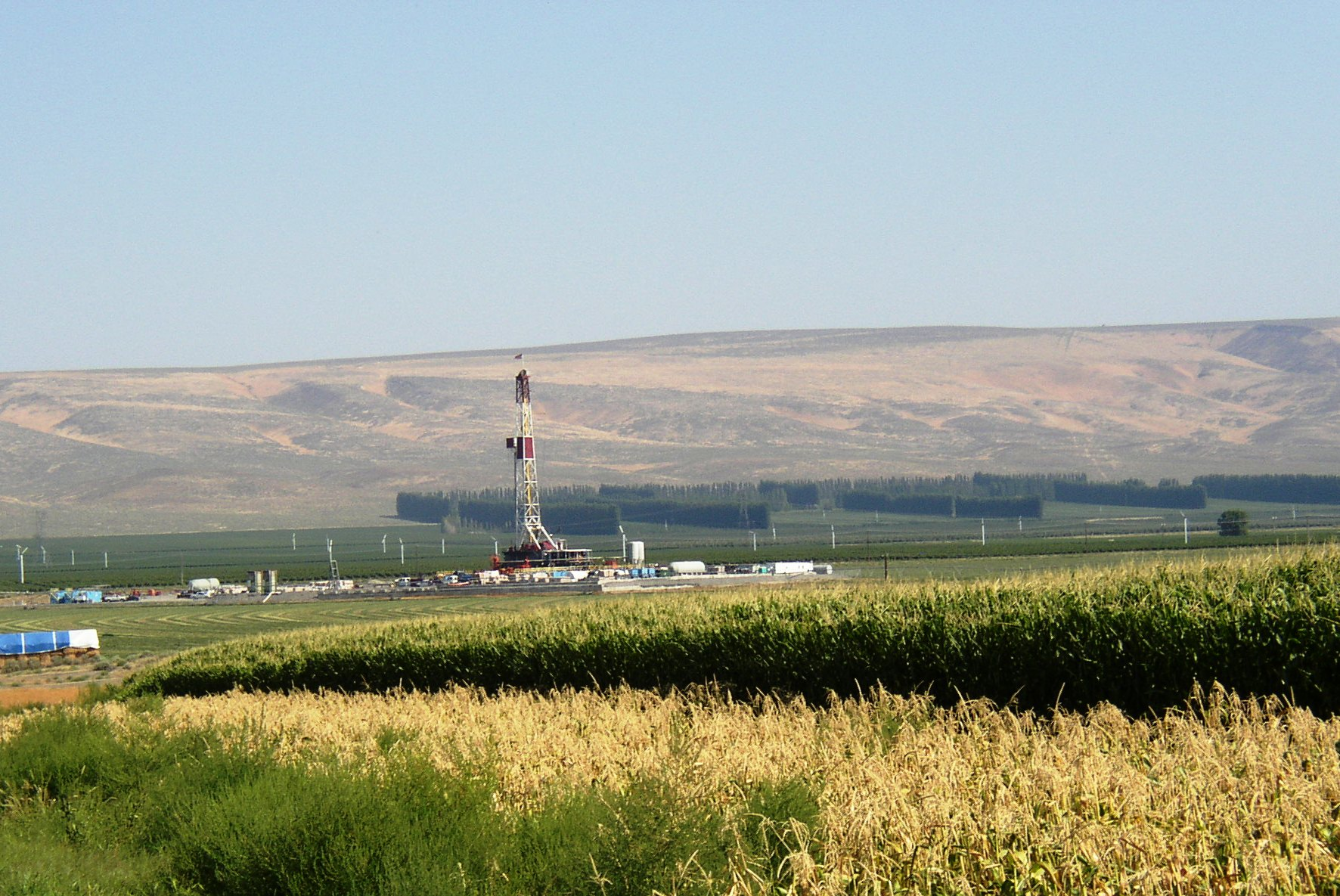 Used in the artile on Saddle Mountains in Washington state. Photo taken by uploader in 2006. All rights released. Williamborg 23:49, 8 April 2007 (UTC)